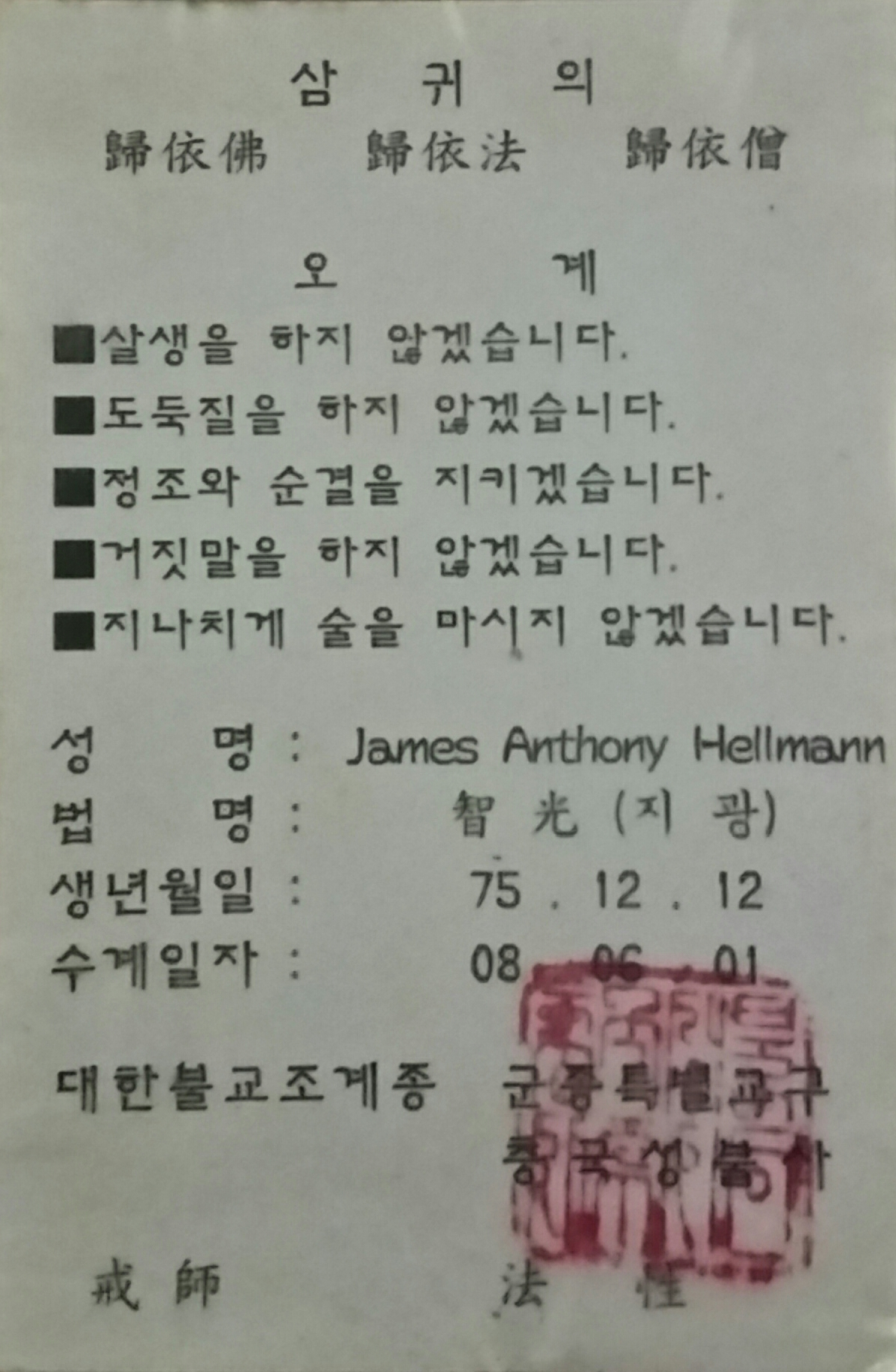 Card given to new Buddhists of the Jogye Order, signifying the taking of refuge in the three jewels and commitment to keeping the five precepts.